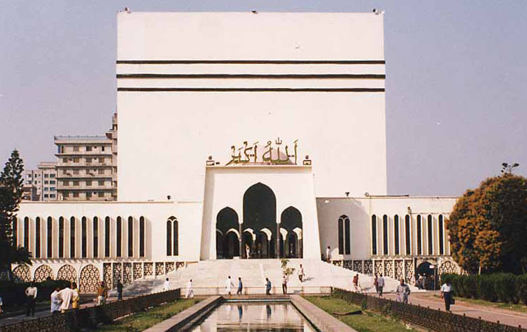 Baitul Mukarram National Mosque in Dhaka was built in en:1962. The structure resembles the Kaaba in Mecca